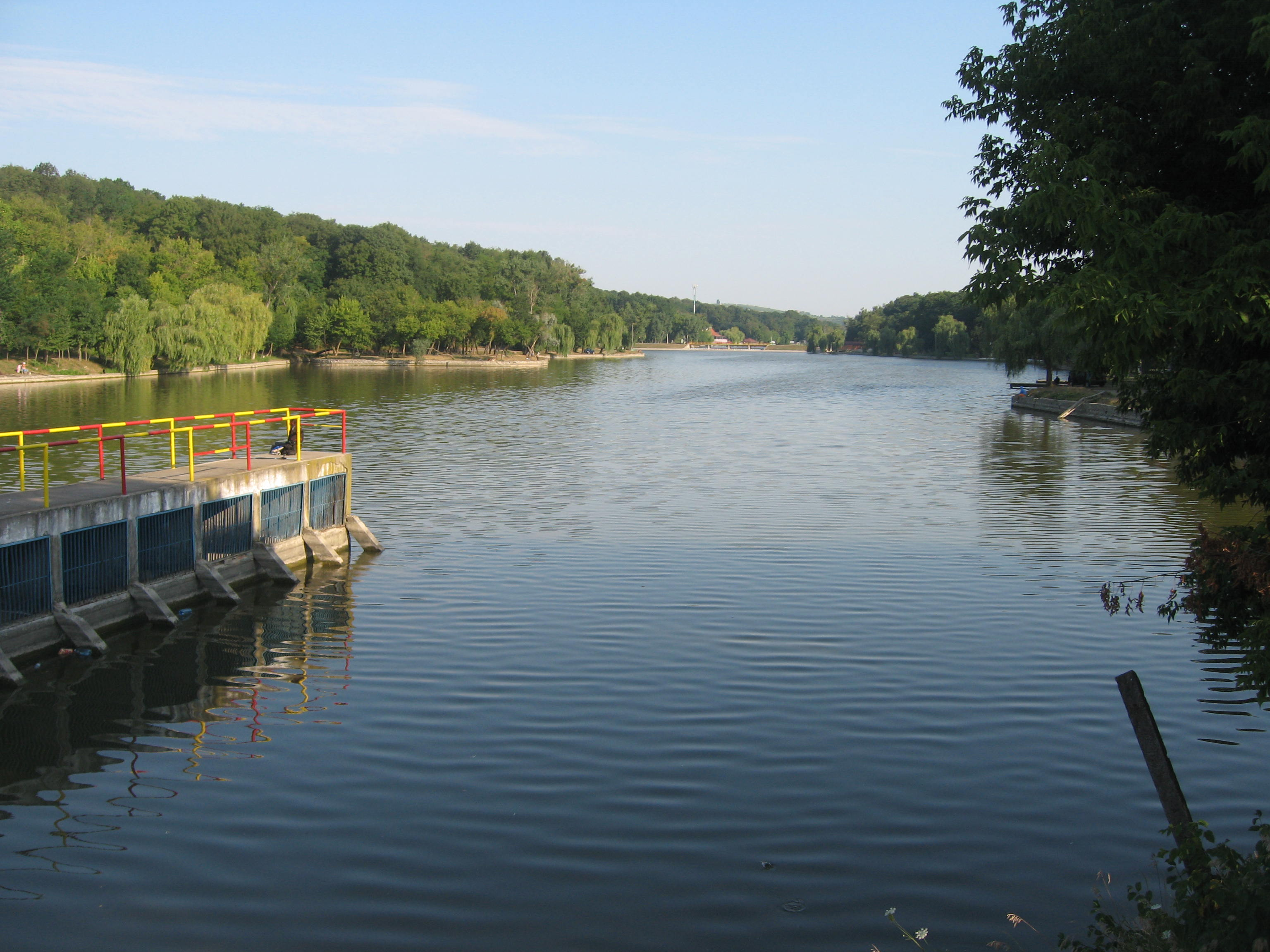 Barajul Ciric II